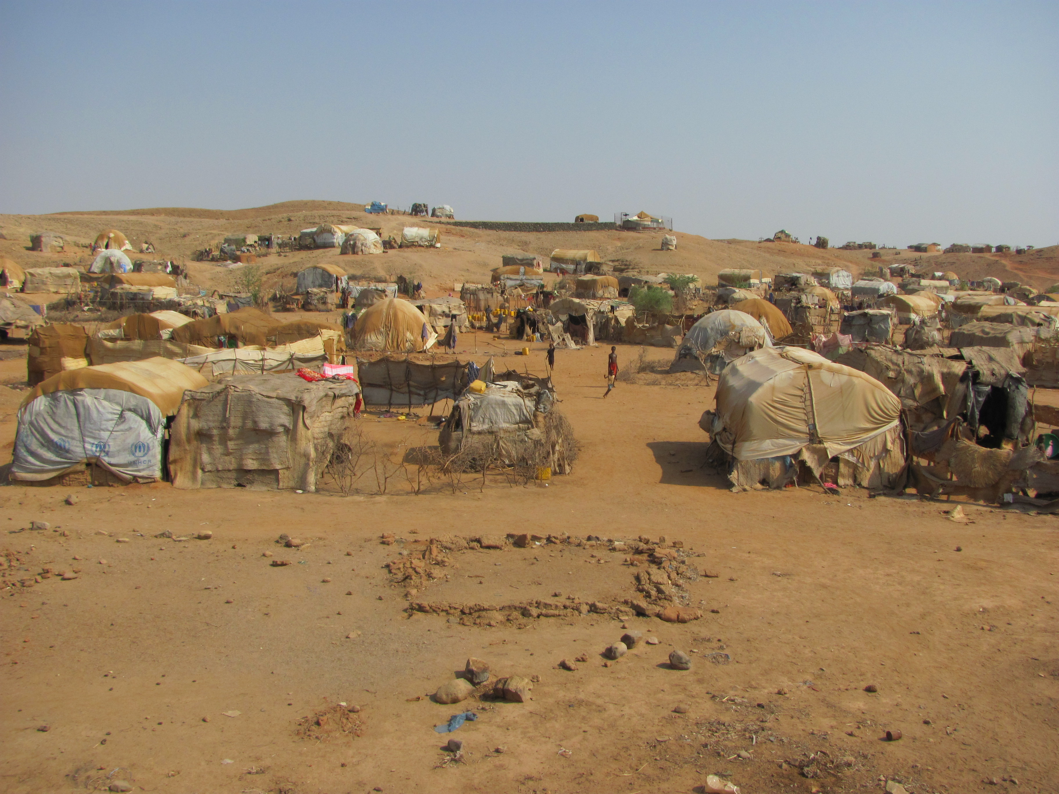 Refugee camp of Somalians west of Massawa